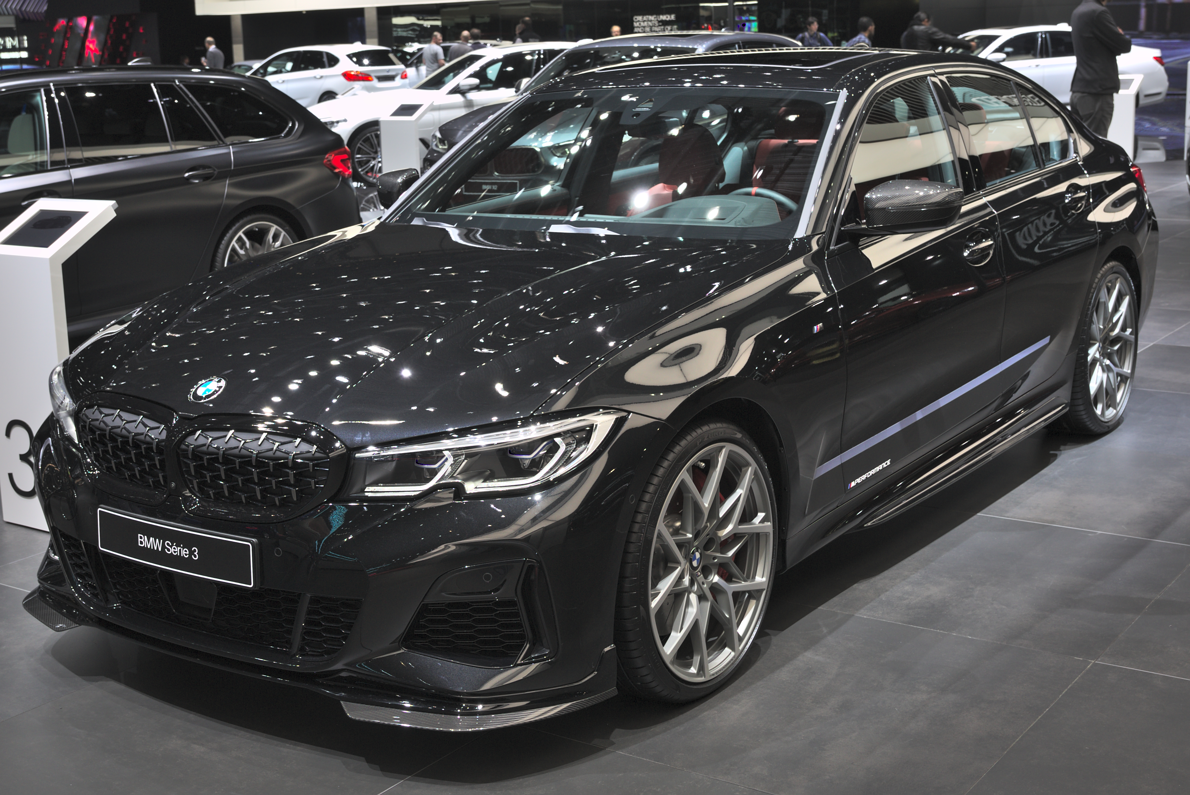 BMW M340i at Geneva Motor Show 2019